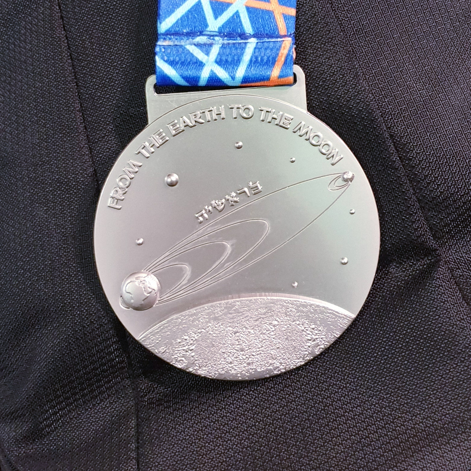 Back side of a silver medal of the 2019 International Physics Olympiad in Tel Aviv, Israel. The medal depicts the trajectory of the Beresheet lunar lander between earth and moon.